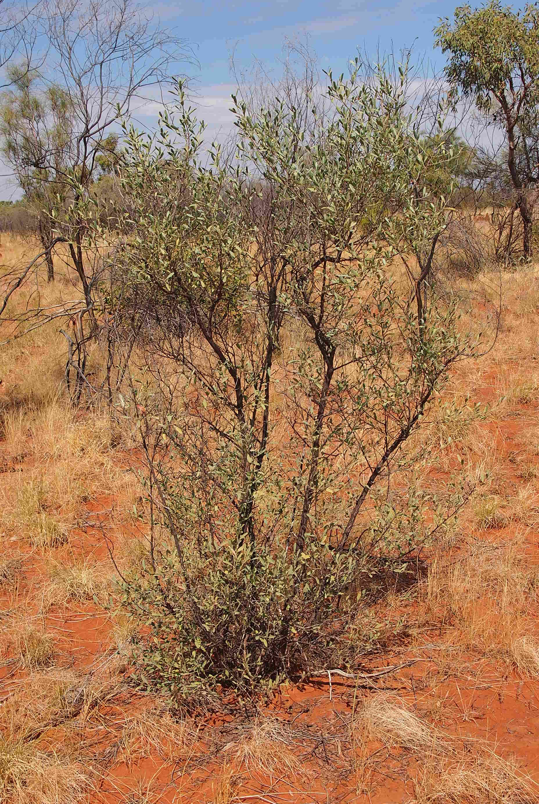 Stylobasium spathulatum habit